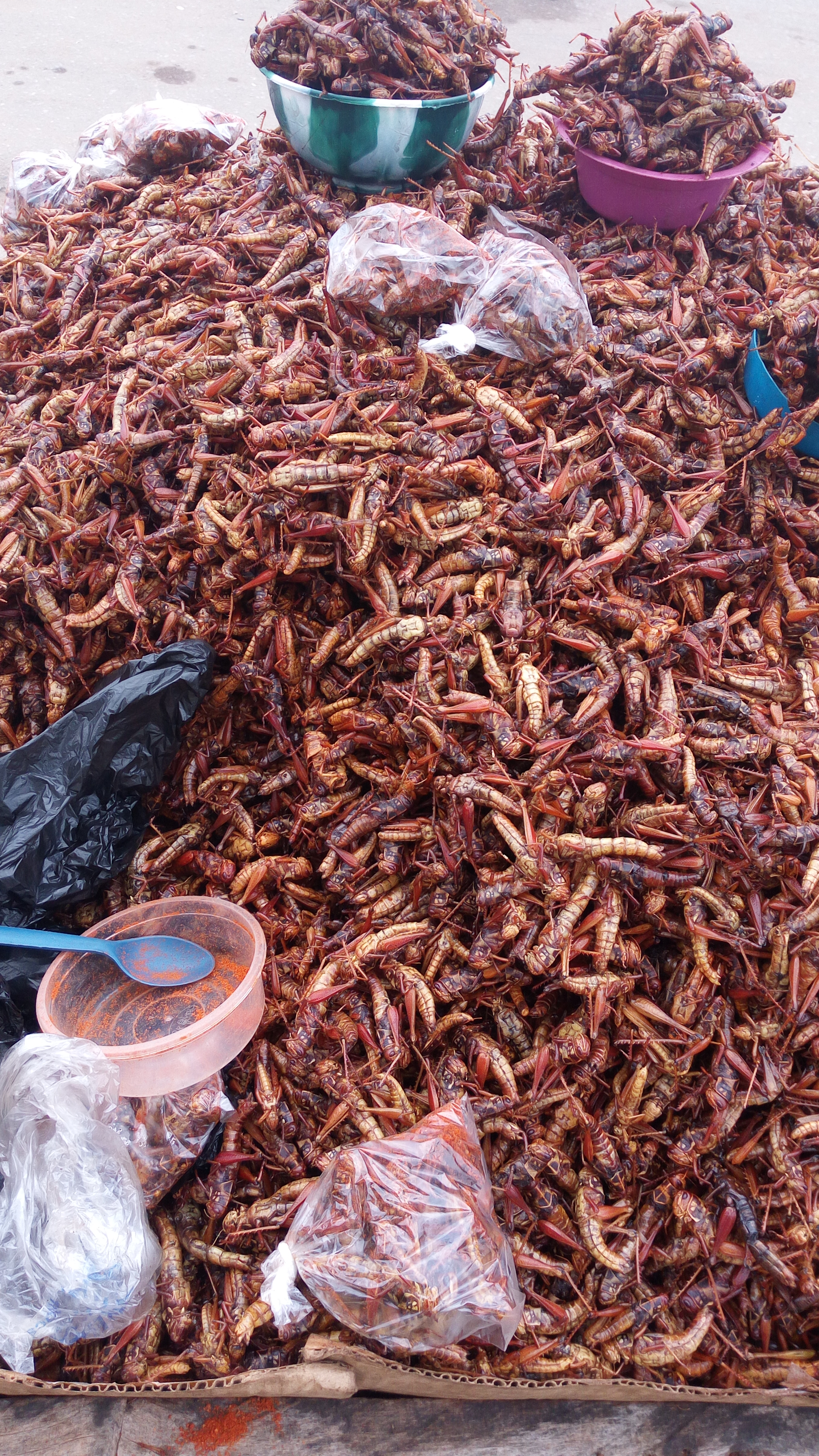 That's grasshopper African edible insects, it looks like crayfish from a long distance after being roasted This is an image of "African people at work" from Nigeria